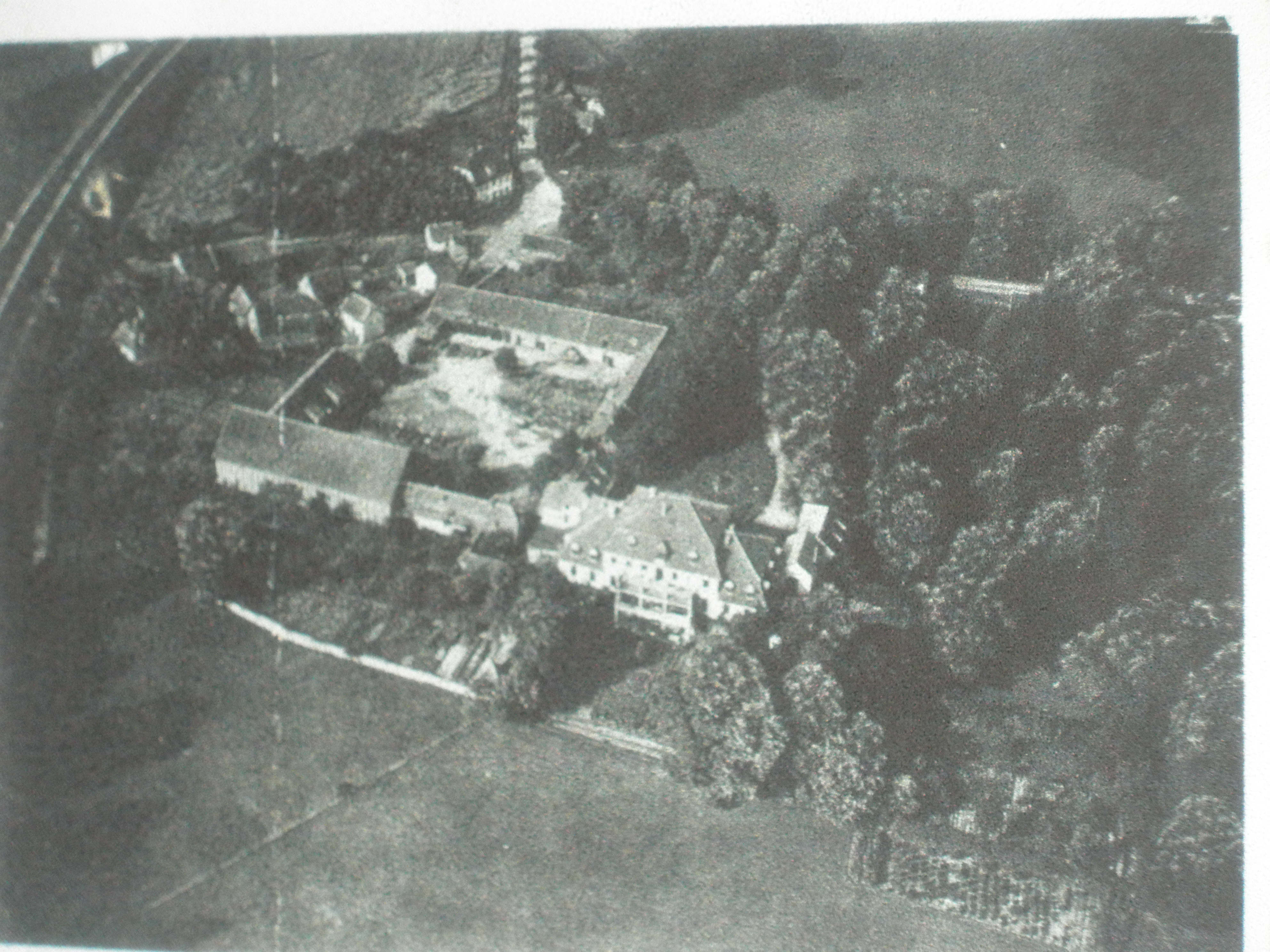 Castle and Manor in Stedten in Thuringia